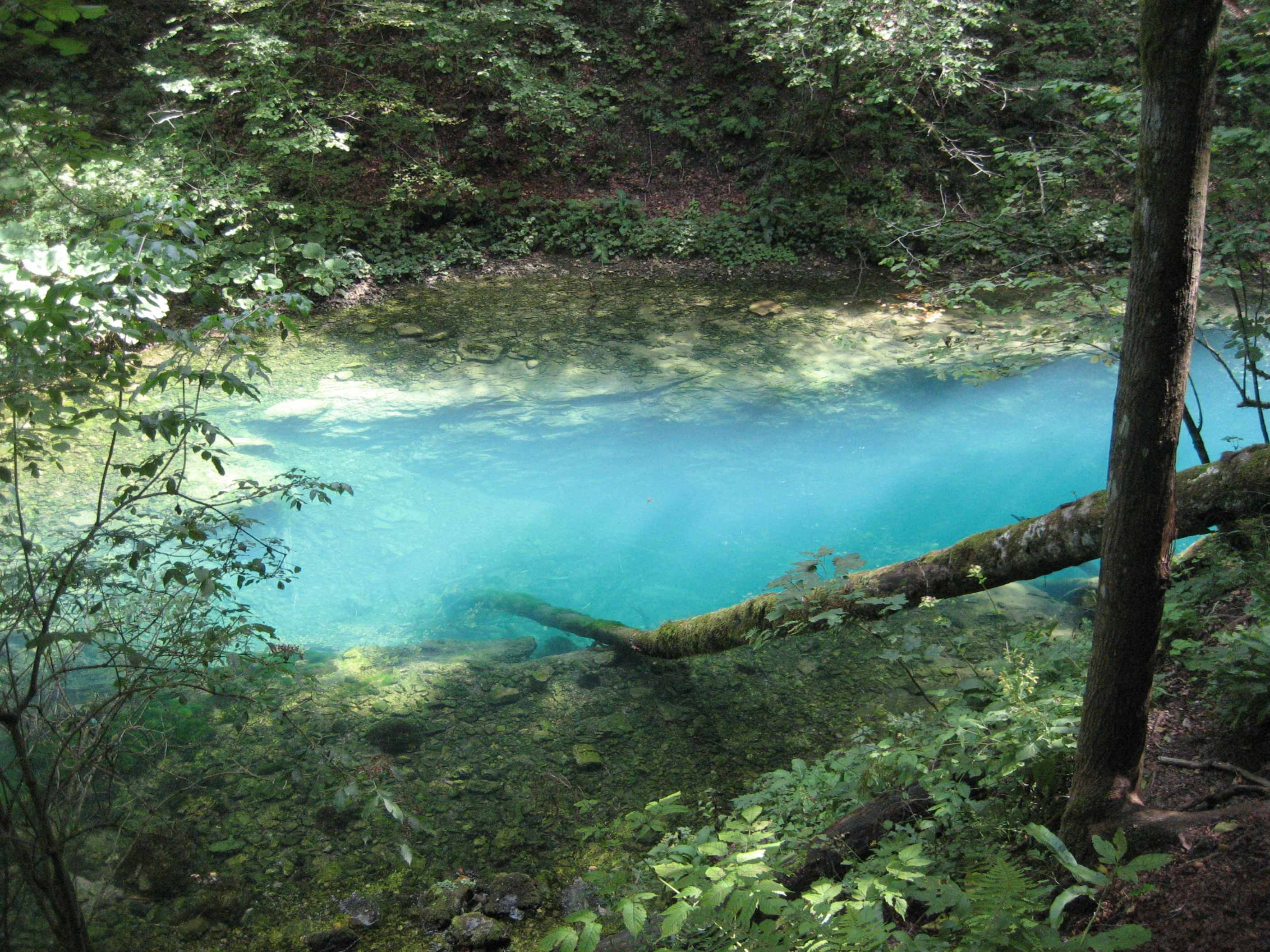 Kamacnik,_Croatia